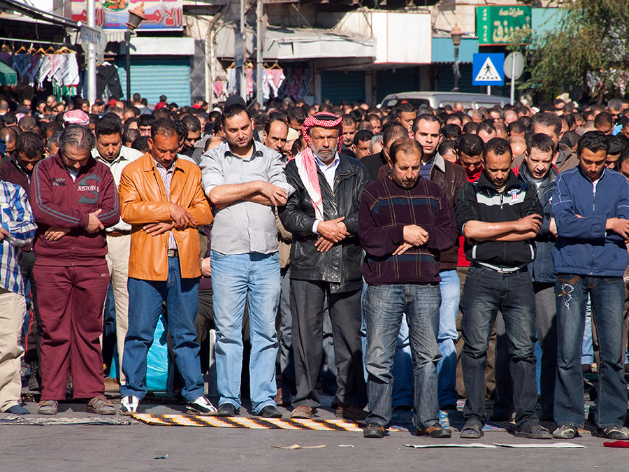 Muslims, praying with closed hands